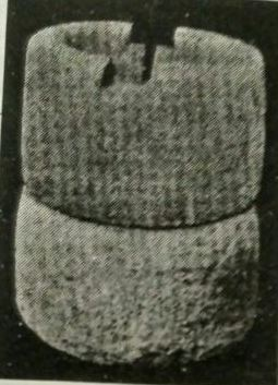 उखळीचे जाते